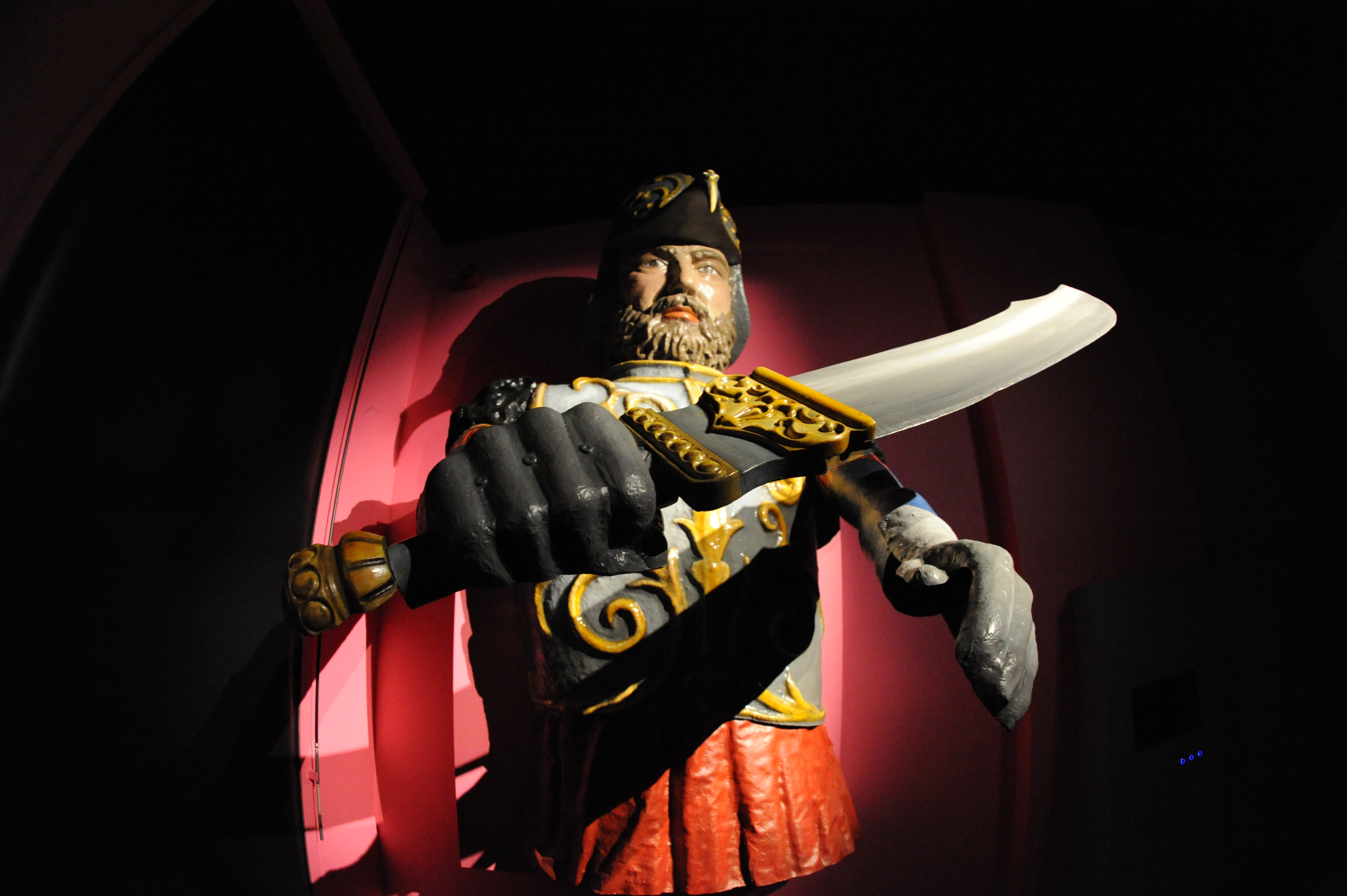 Exemple d'un géant de l'antiquité: Hercule